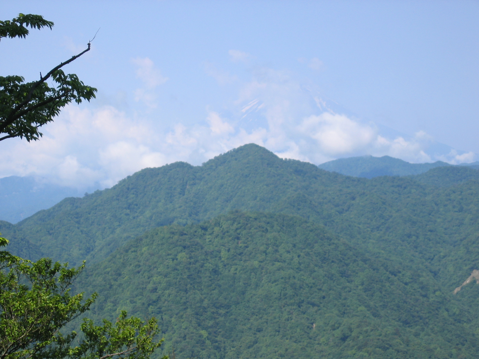 Mt.Azegamaru at Mts.Tanzawa, Kanagawa, Japan.